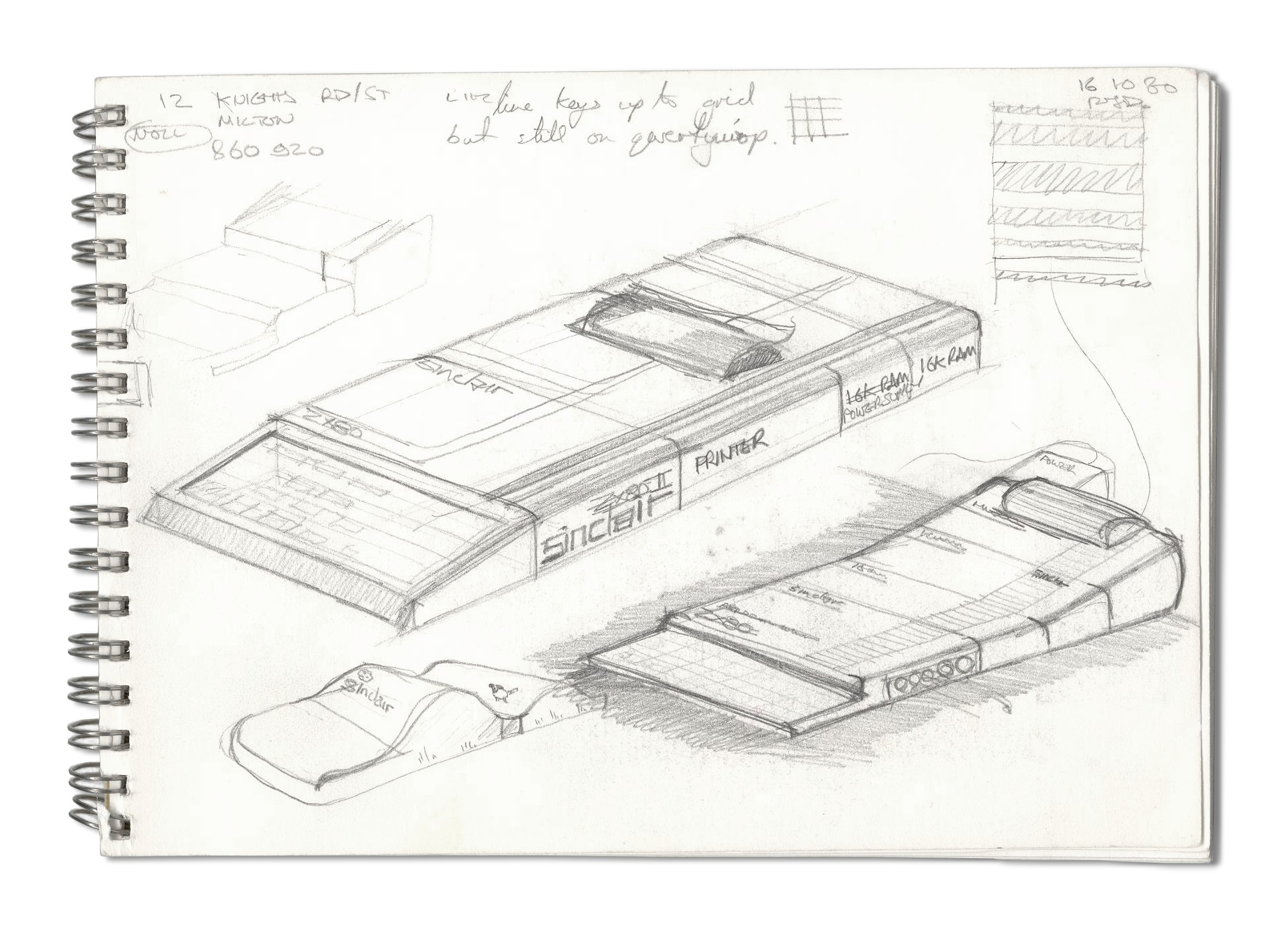 Original caption: "Tiny crude sketch in a cafe showing how I imagined the ZX81 to be an expandable range of boxes following a vaguely modular approach with a common width."